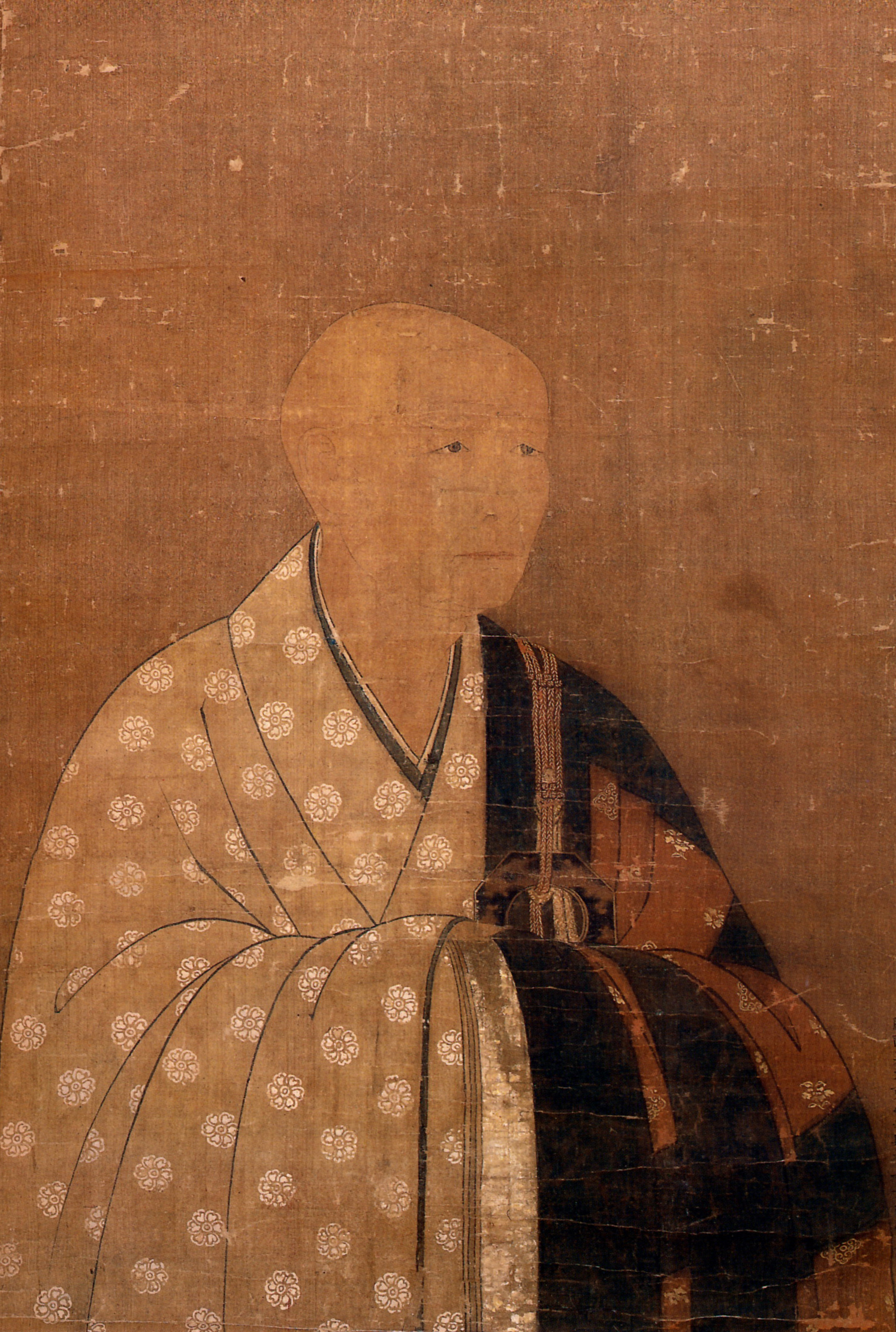 Portrait of Shun'oku Myoha(1311- 1388),Hanging scroll,Color on silk